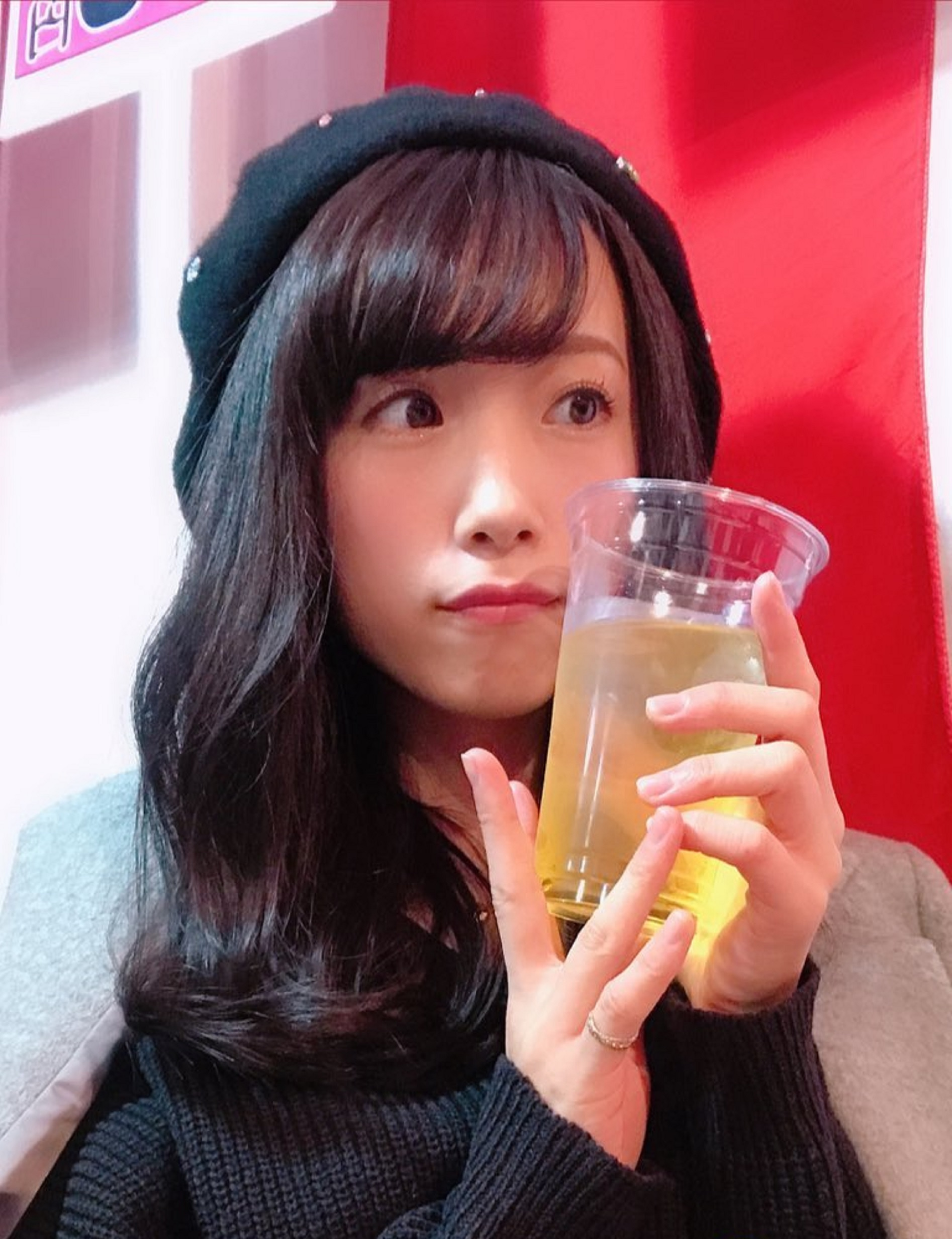 Visited to the Shinjuku Tori-no-ichi Fair ( Cock Festival ) held in the Hanazono Shrine